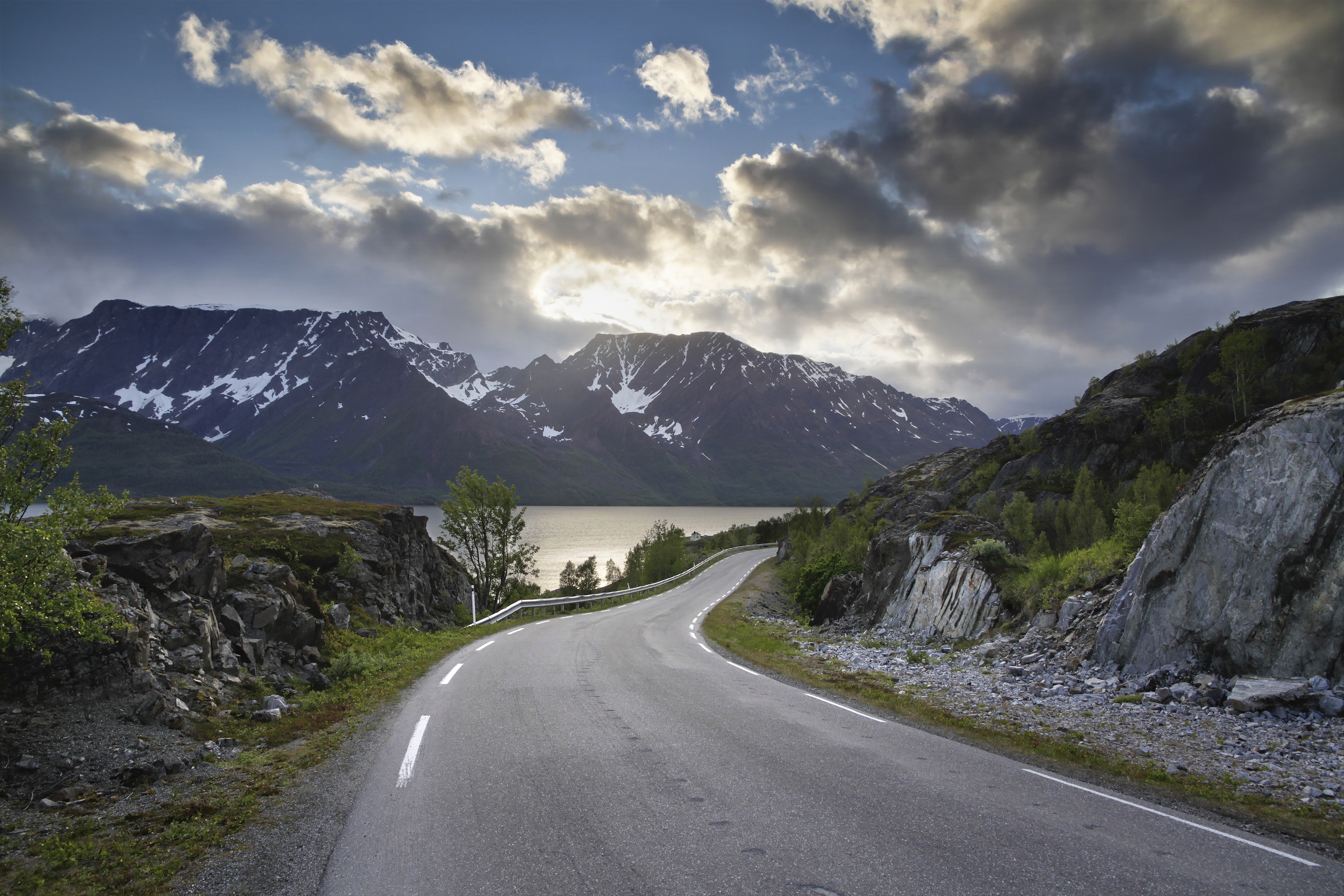 The coastal Fv882 road by Øksfjorden in Finnmark, Norway in late evening in 2012 June. The photograph was shot near Steinvikneset. The road leads from E6 main road to Øksfjord.